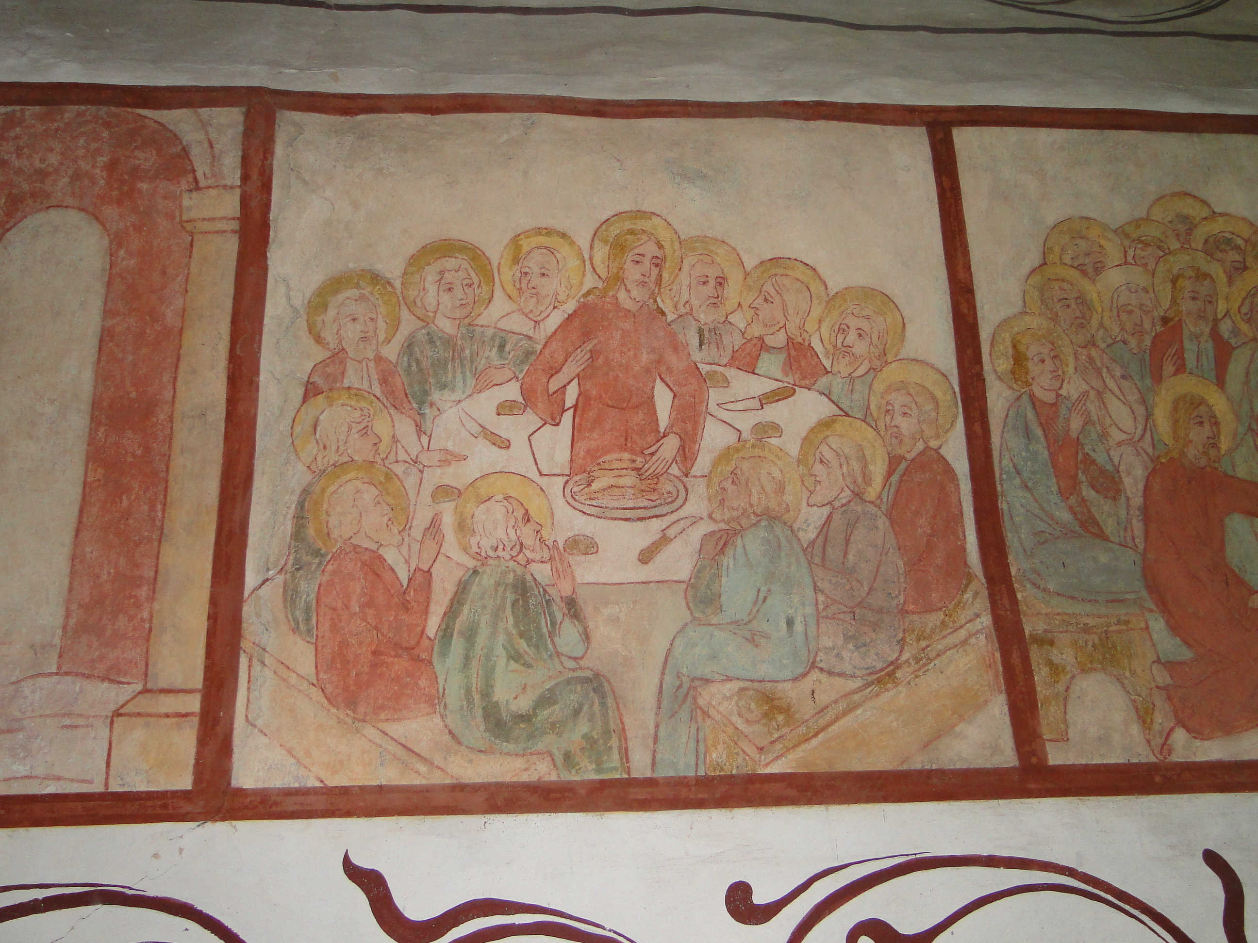 Fresco in the church in Below, district Ludwigslust-Parchim, Mecklenburg-Vorpommern, Germany